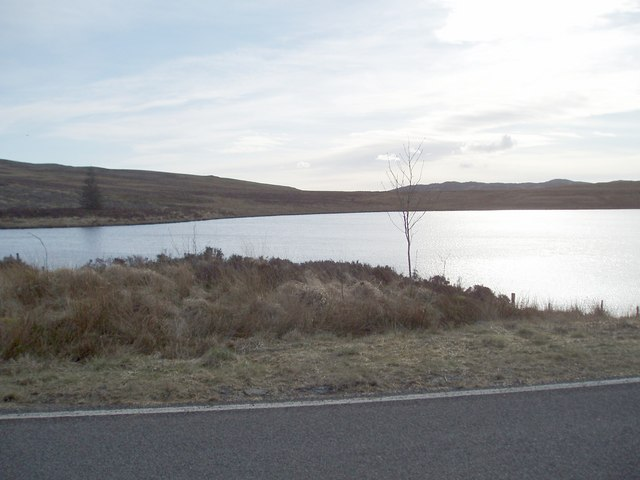 Llyn Tryweryn. Source of the Afon Tryweryn,which flows into Llyn Celyn